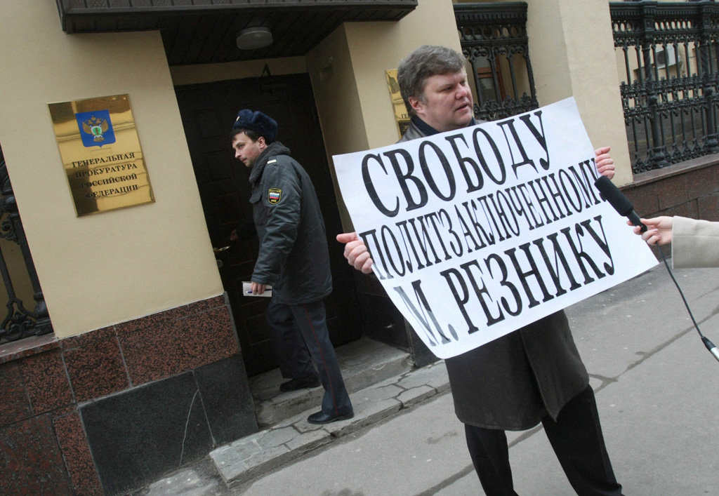 “A document check”. Sergei Mitrokhin organizes meeting in support of Maxim Reznik, the arrested head of the Yabloko political party's St. Petersburg chapter, in front of the Russian Prosecutor-General's Office.